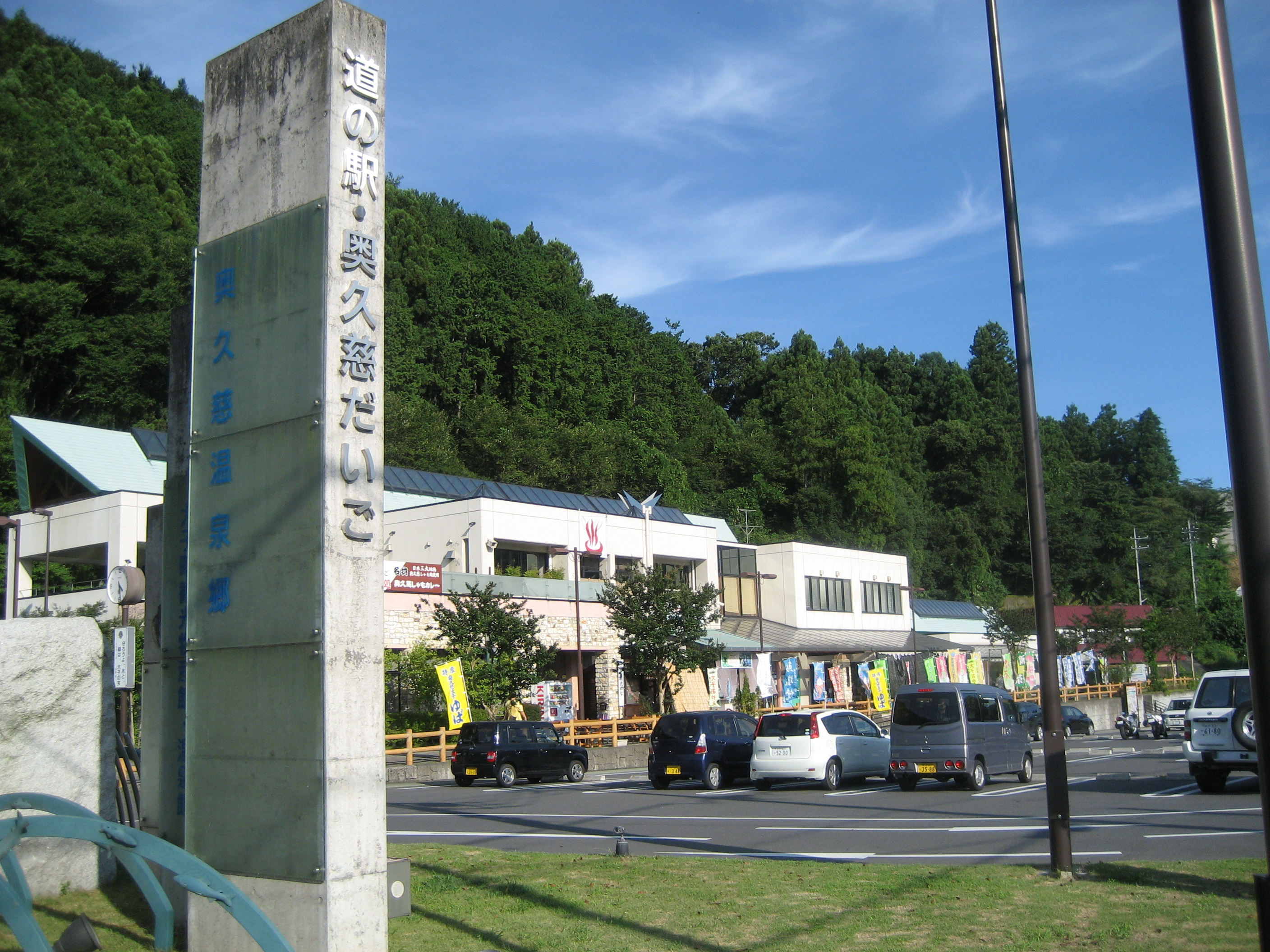 Entrance to Michinoeki Okukuji Daigo